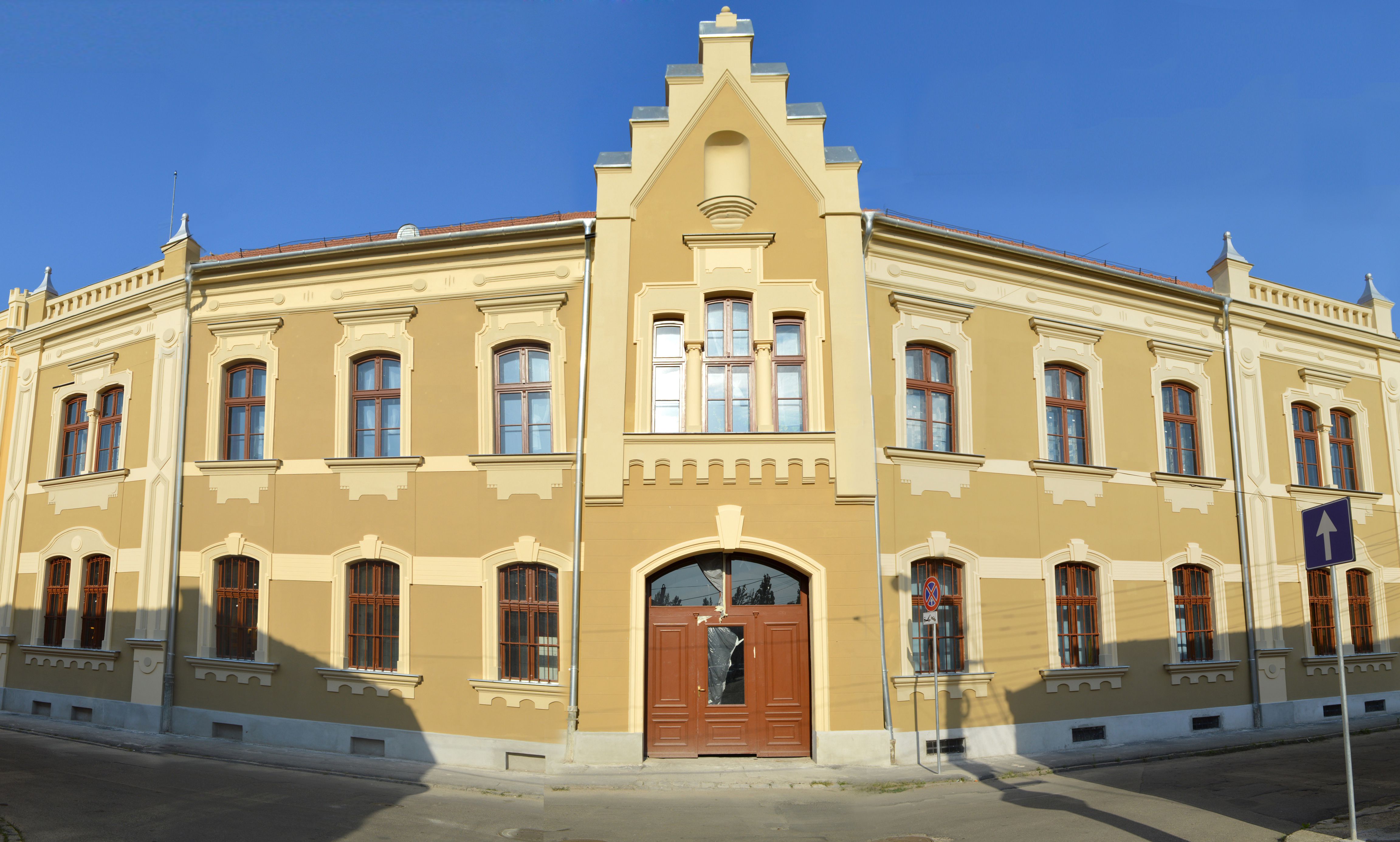 Saint Laszlo High School - OradeaRomână: Fostul Institut romano-catolic „Sf. Vicențiu”, actualul liceu „Szent László”